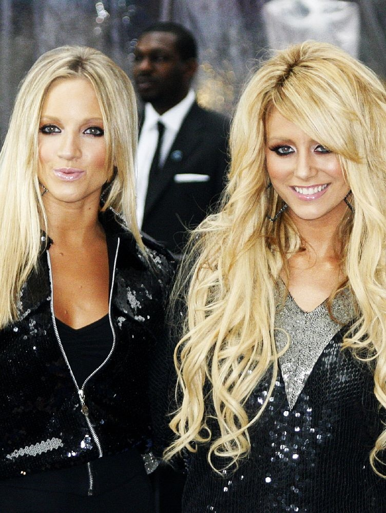 Dumblonde on October 20, 2006.